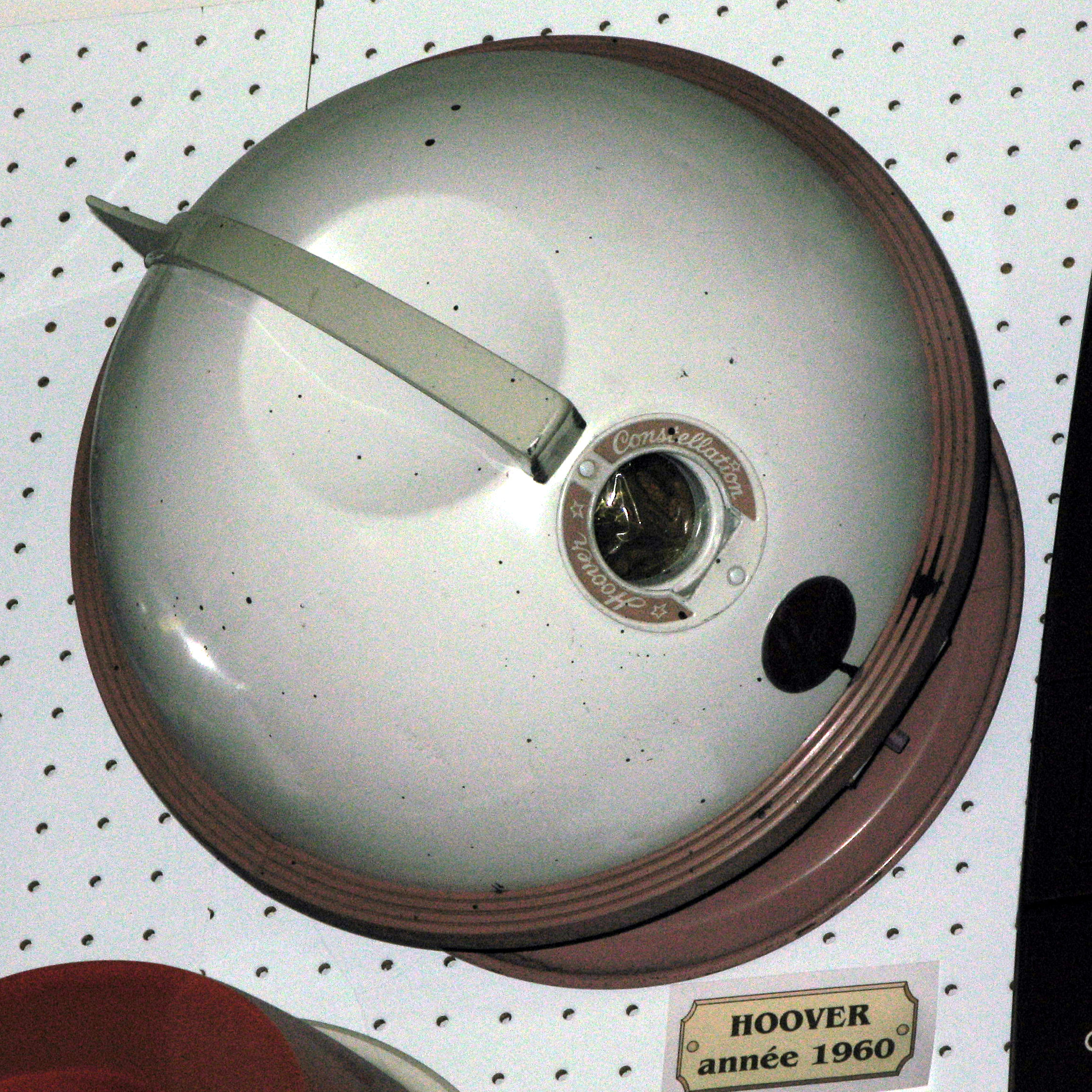 Vintage vacuum cleaner.